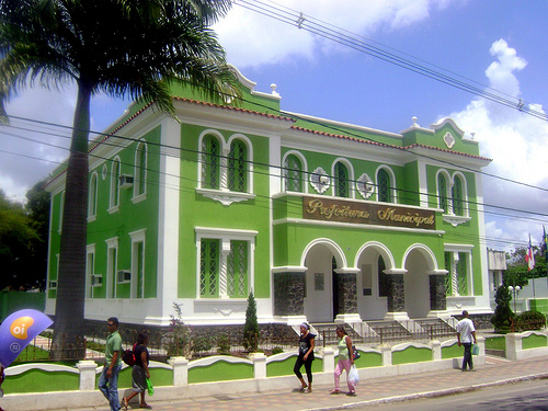 Photo of the Perfeitura Municipal (city hall) of Santo Antonio de Jesus, Bahia, Brazil